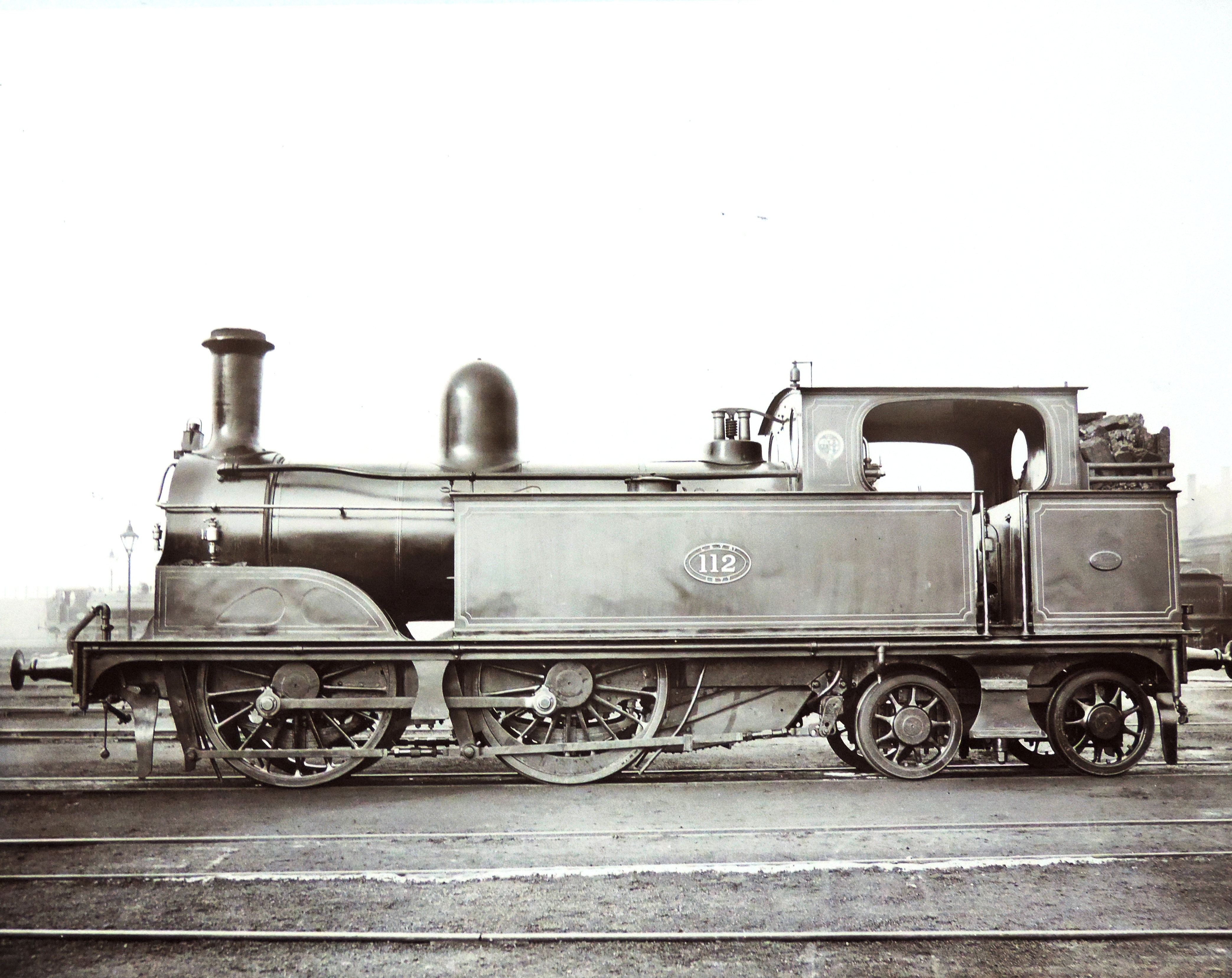 Lancashire and Yorkshire Railway No. 112. L&YR 111-class 0-4-4T locomotive. Built by Kitson and Company (Works no. 2117 of May 1877); reboilered November 1892; withdrawn June 1910.